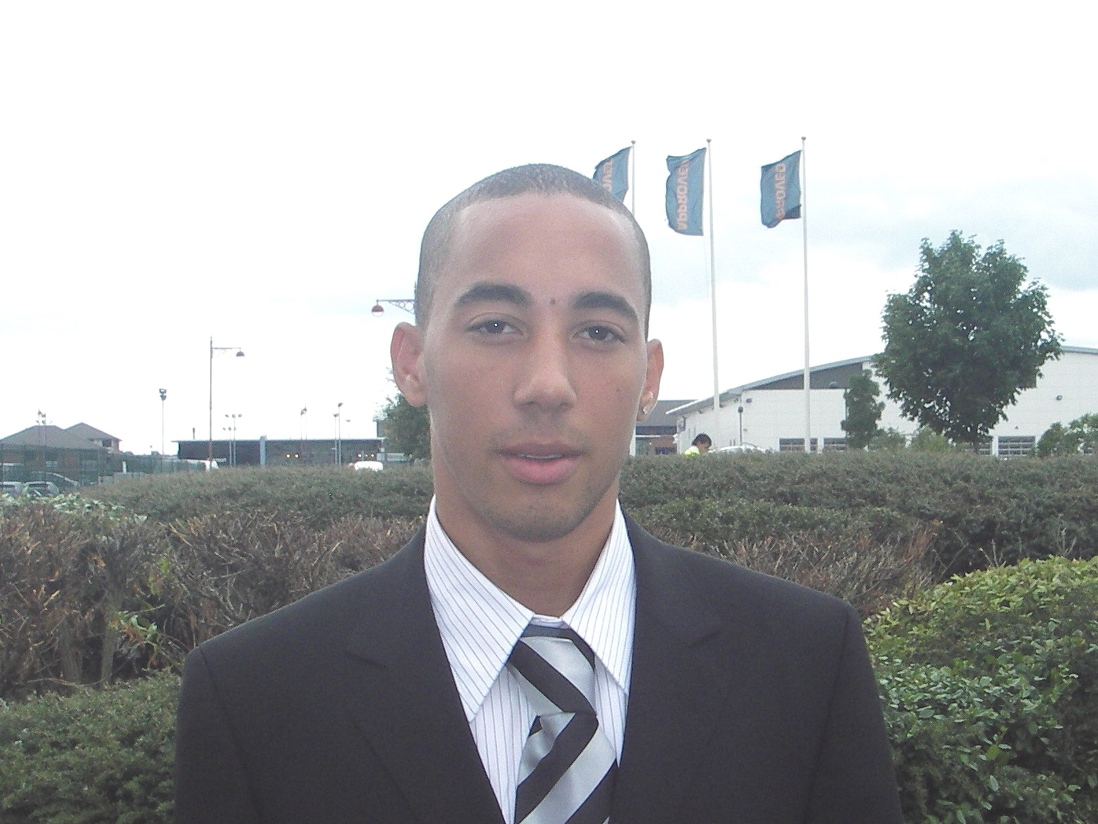 Ryan Smith, Derby County player.